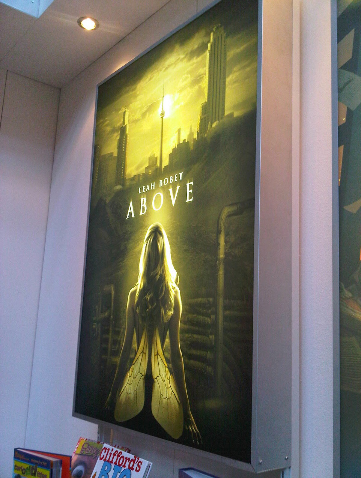 ABOVE by Leah Bobet was the big title at Scholastic, with a light box and galleys. Frankfurt Book Fair 2011